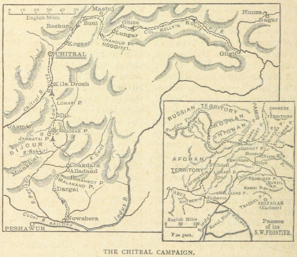 The route taken by the British forces during the 1895 Chitral Expedition.